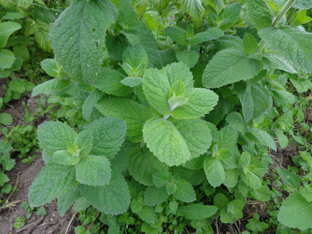 Mentha × piperita. Found in Latvia